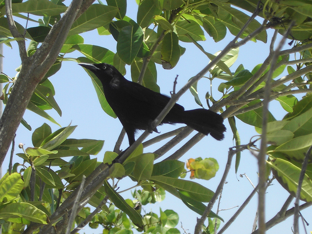 at Le Gosier, Guadeloupe, W.I.